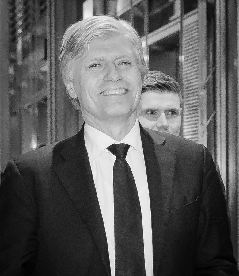 Ola Elvestuen at Governor Øystein Olsen's annual address in February 2018